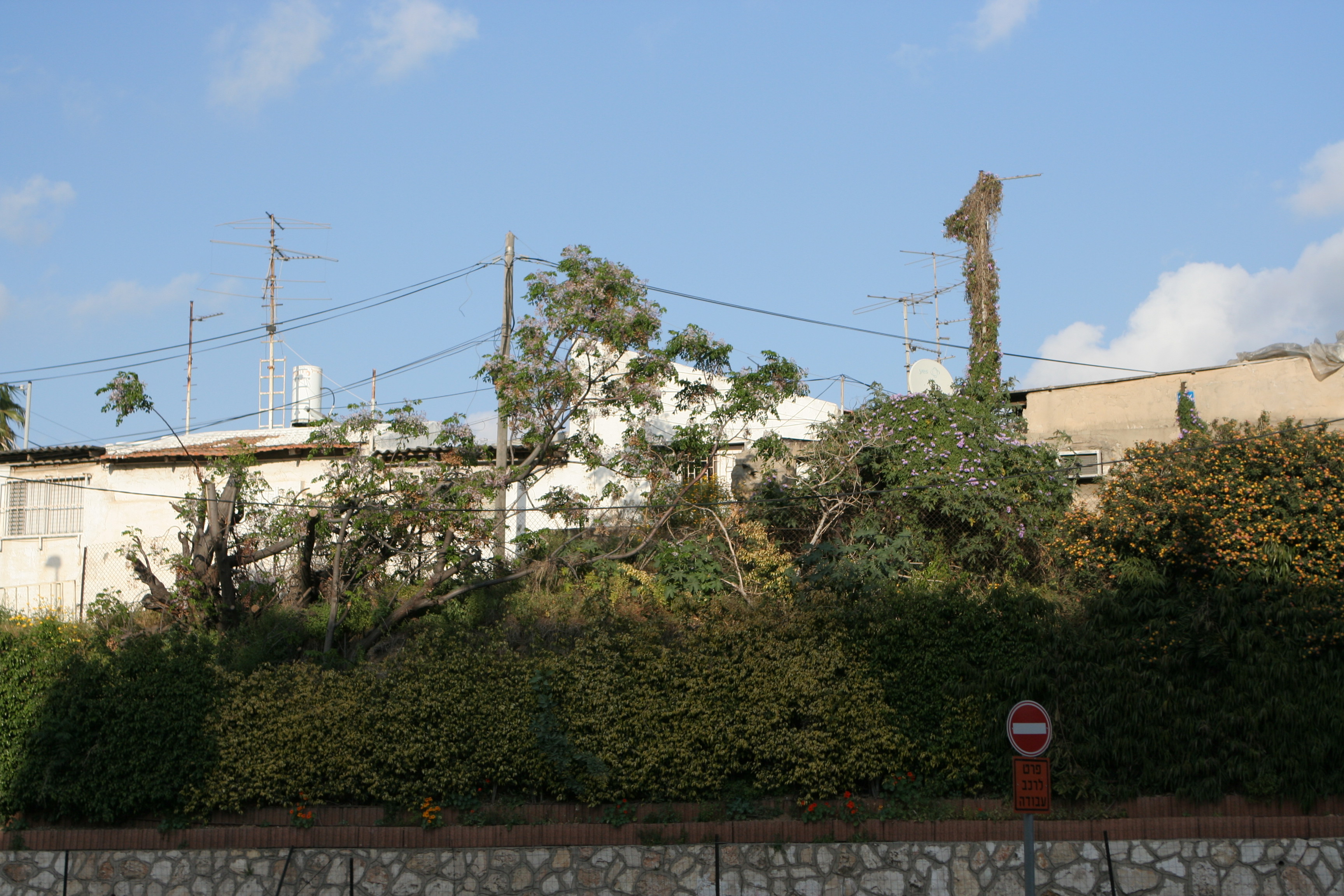 SUMEIL, Tel Aviv, a view from Iben Gvirol Street